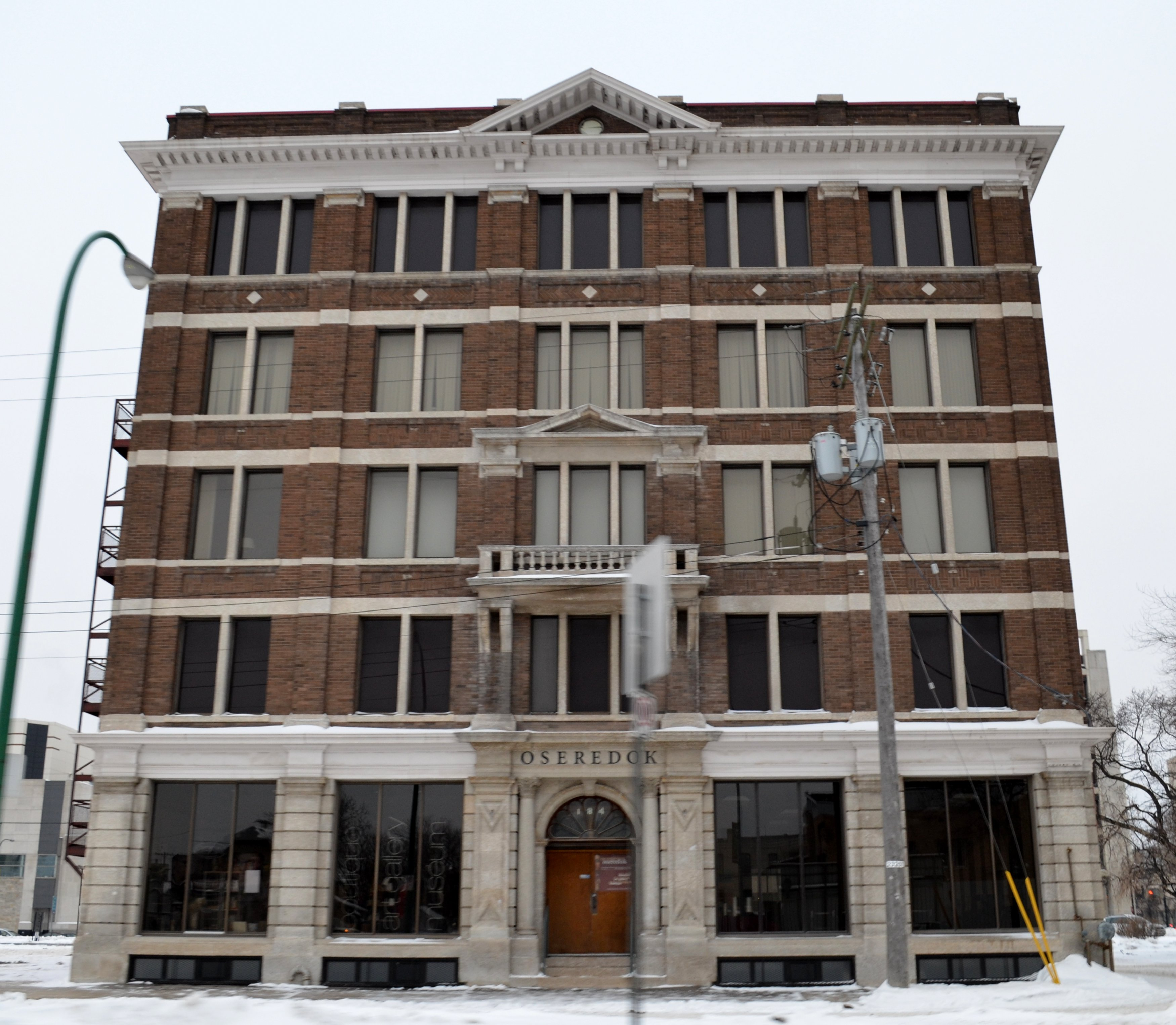 OSEREDOK Ukrainian Cultural and Educational Centre 184 Alexander Avenue East, Winnipeg Manitoba Canada